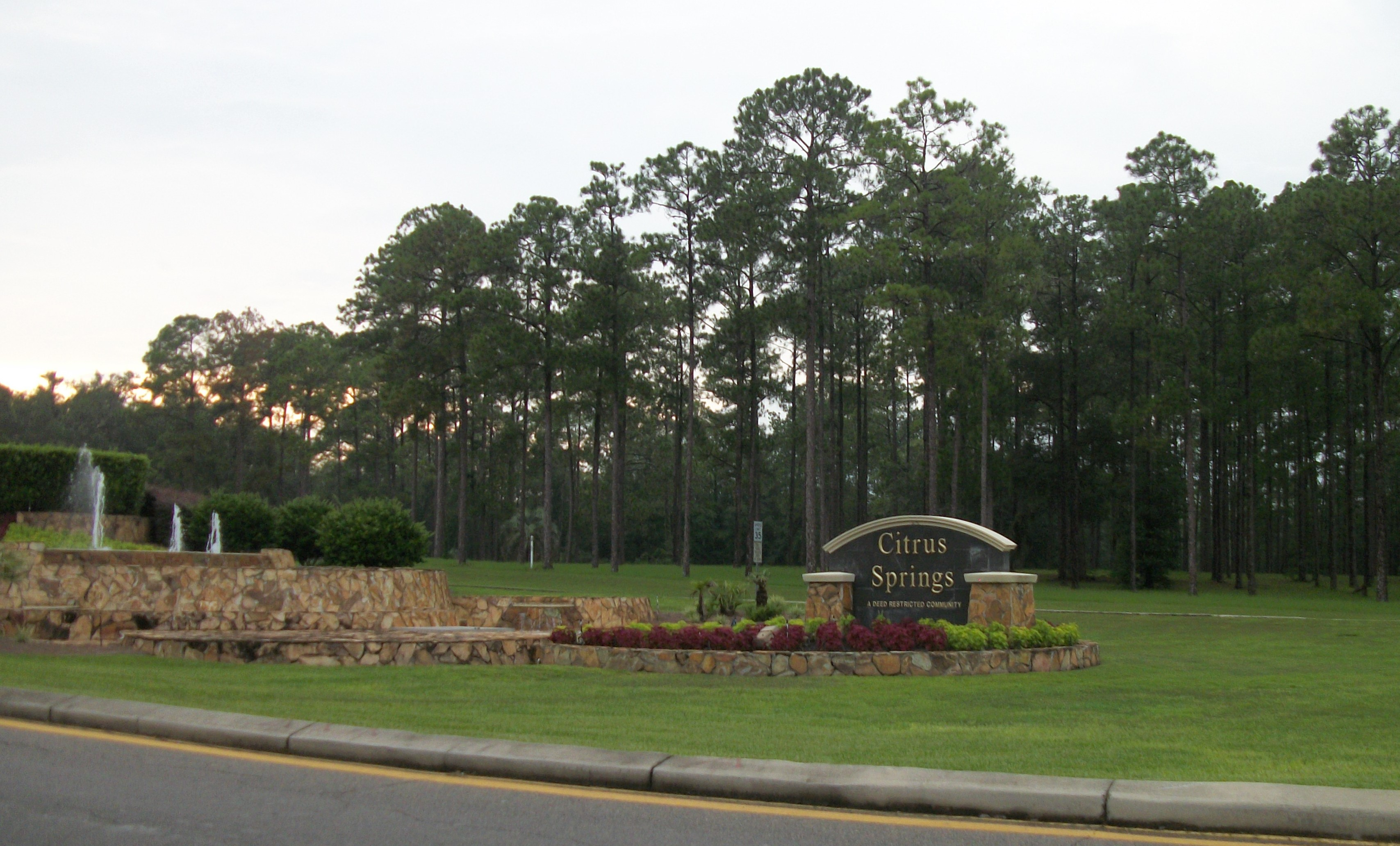 The west gateway to Citrus Springs, Florida at the intersection of North Citrus Springs Boulevard and US 41. This gateway contains a water fountain, unlike the one on the east side of this intersection.